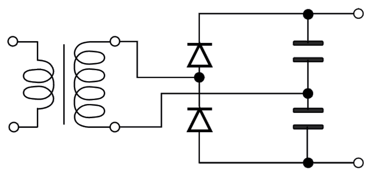 Bridge circuit